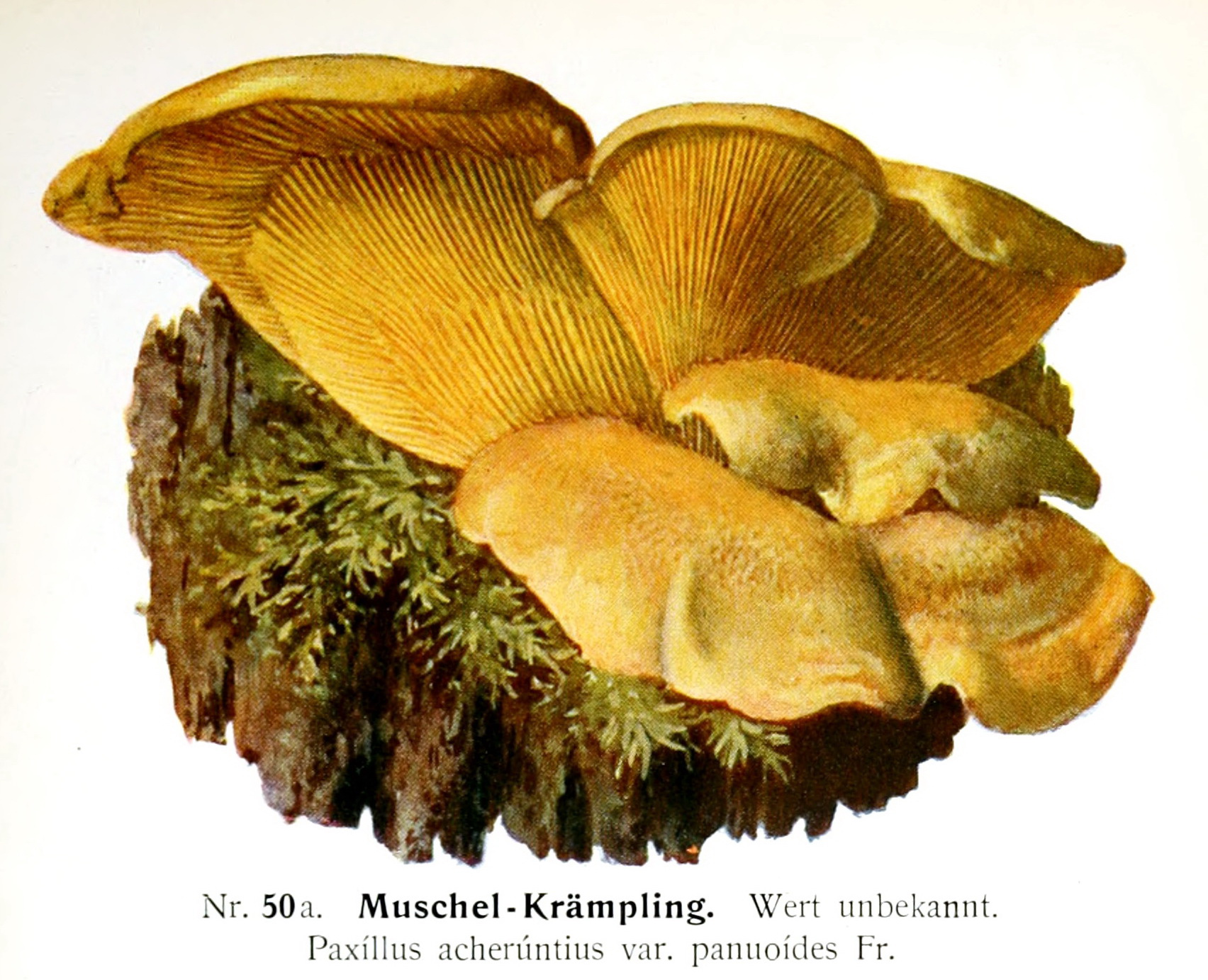 Tapinella panuoides (as Paxillus acheruntius) from "Führer für Pilzfreunde", t. III by Michael Edmund